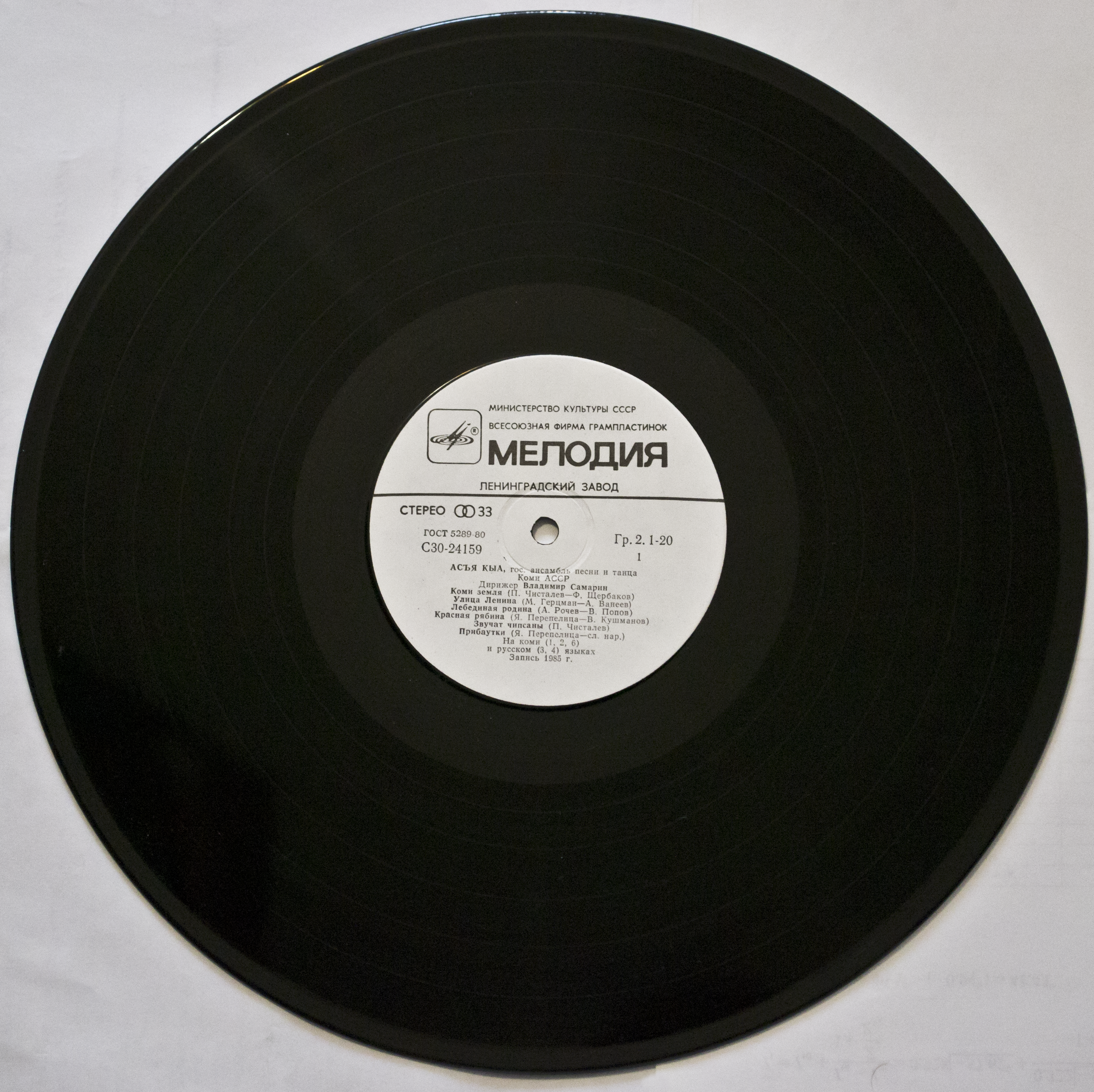 Disk of ensemble "Asya kya" (1986)